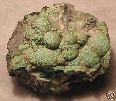 Planerite, Wavellite (Dimensions: 3" x 2 1/2" x 1 3/4") Locality: Mount Ida Mountain Mine, Mount Ida, Montgomery County, Arkansas, USA original description: Pale green planerite on bubbles of wavellite.